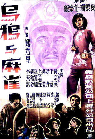 Chinese movie poster for 1949 Chinese film Crows and Sparrows (simplified